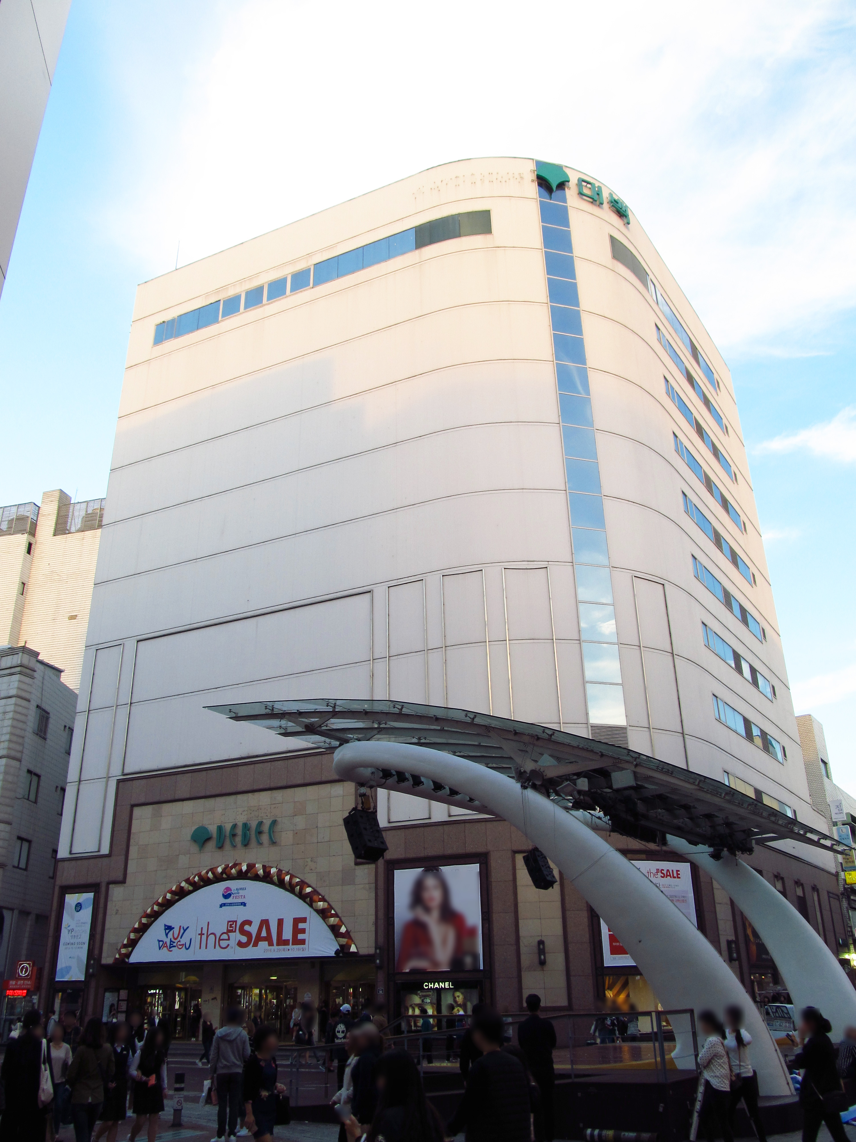 Daegu Department Store(DEBEC)